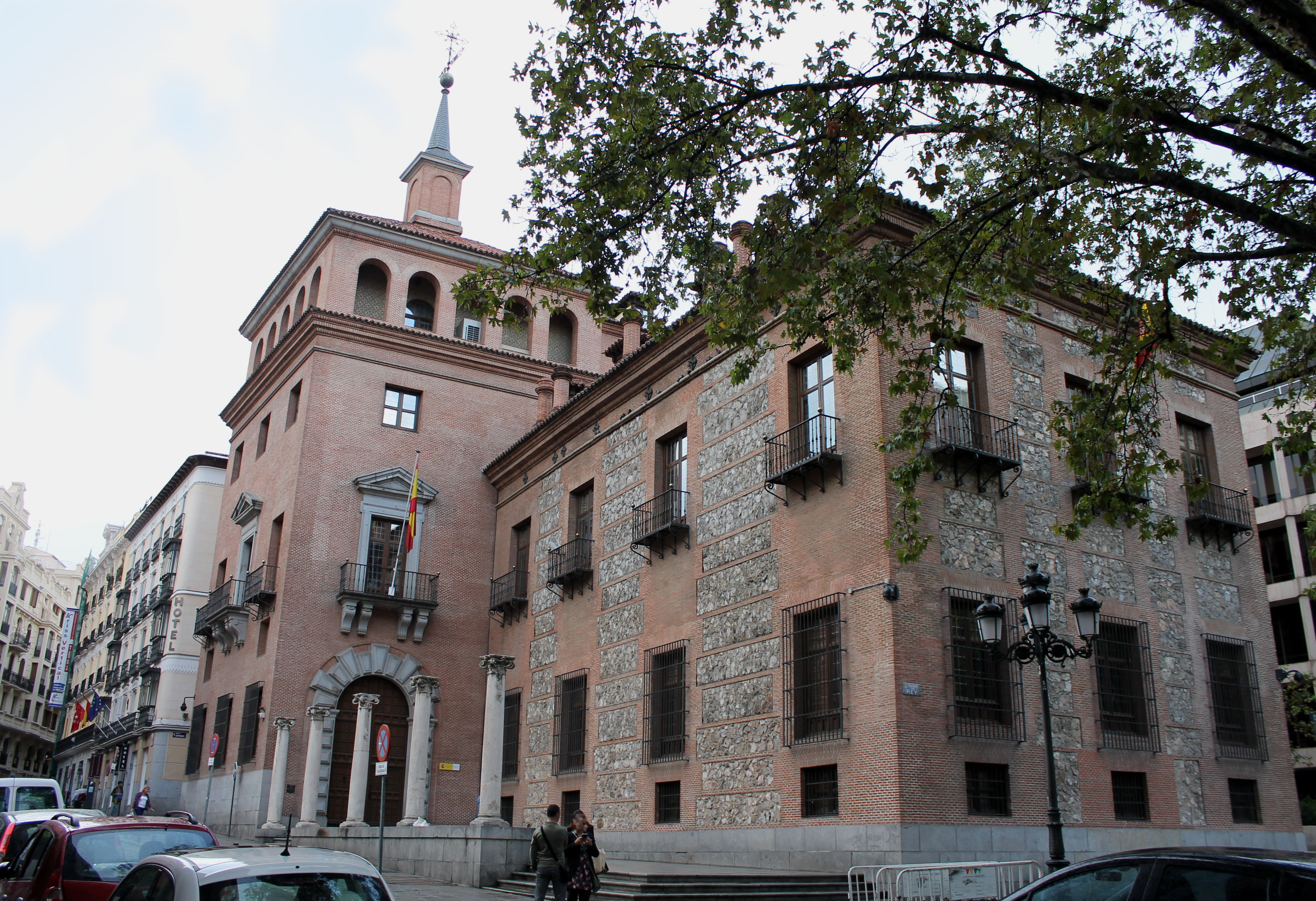 Façade of Casa de las Siete Chimeneas in Madrid (Spain).